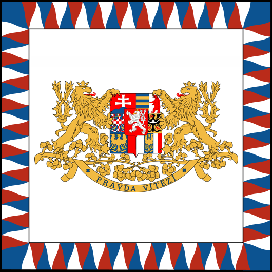 Presidential standard of the First Republic of Czechoslovakia